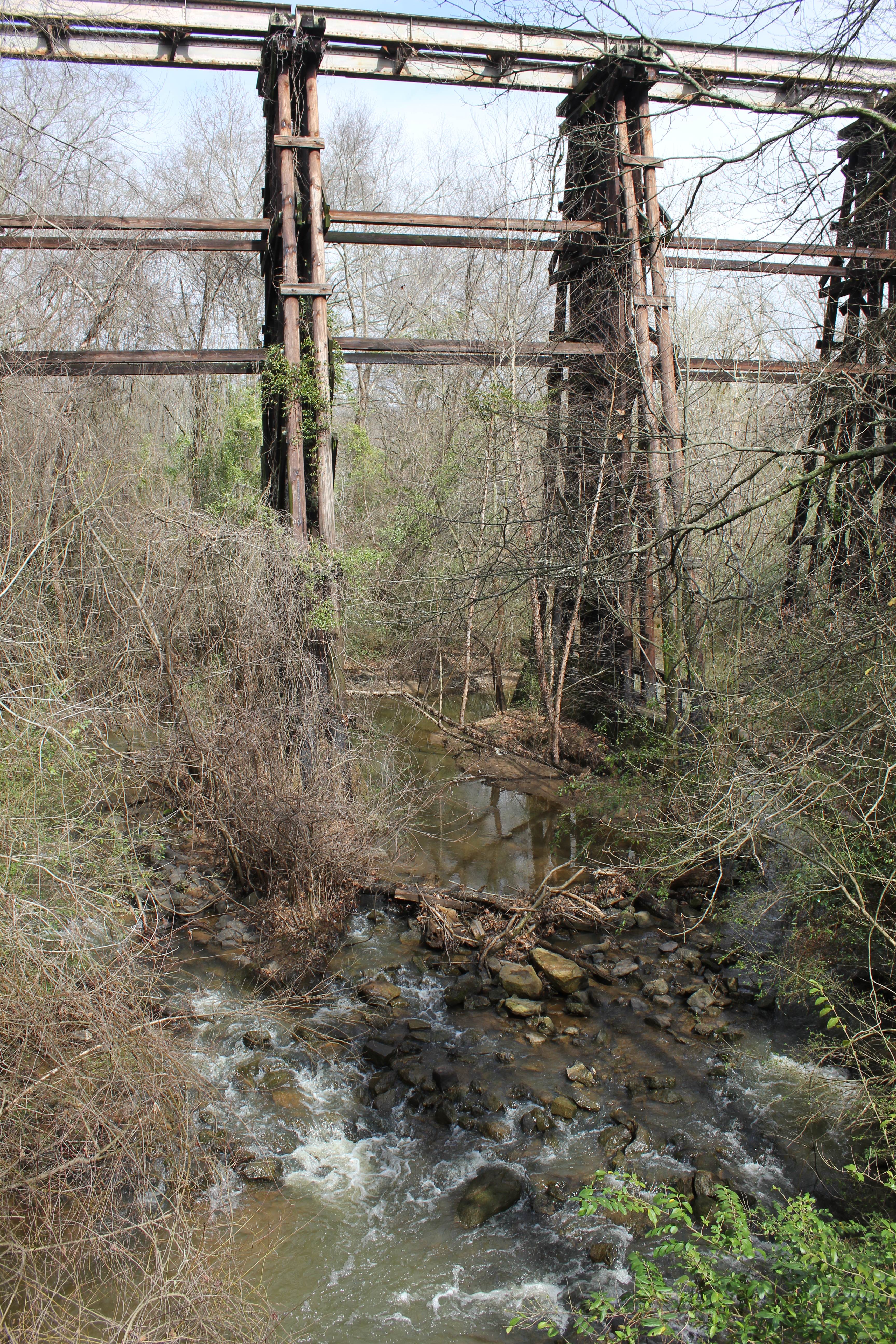 R.E.M. fans know this as the trestle on the back of the bands 1983 classic "Murmur".